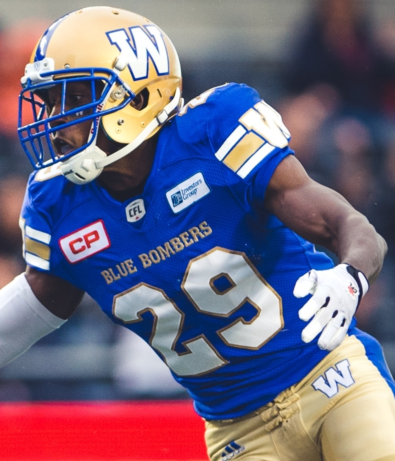 Greg Ellingson (82) of the Ottawa REDBLACKS and Julian Posey (29) of the Winnipeg Blue Bombers during the pre-season game against the Winnipeg Blue Bombers at TD Place in Ottawa, ON on Monday June 13, 2016. (Photo: Johany Jutras)